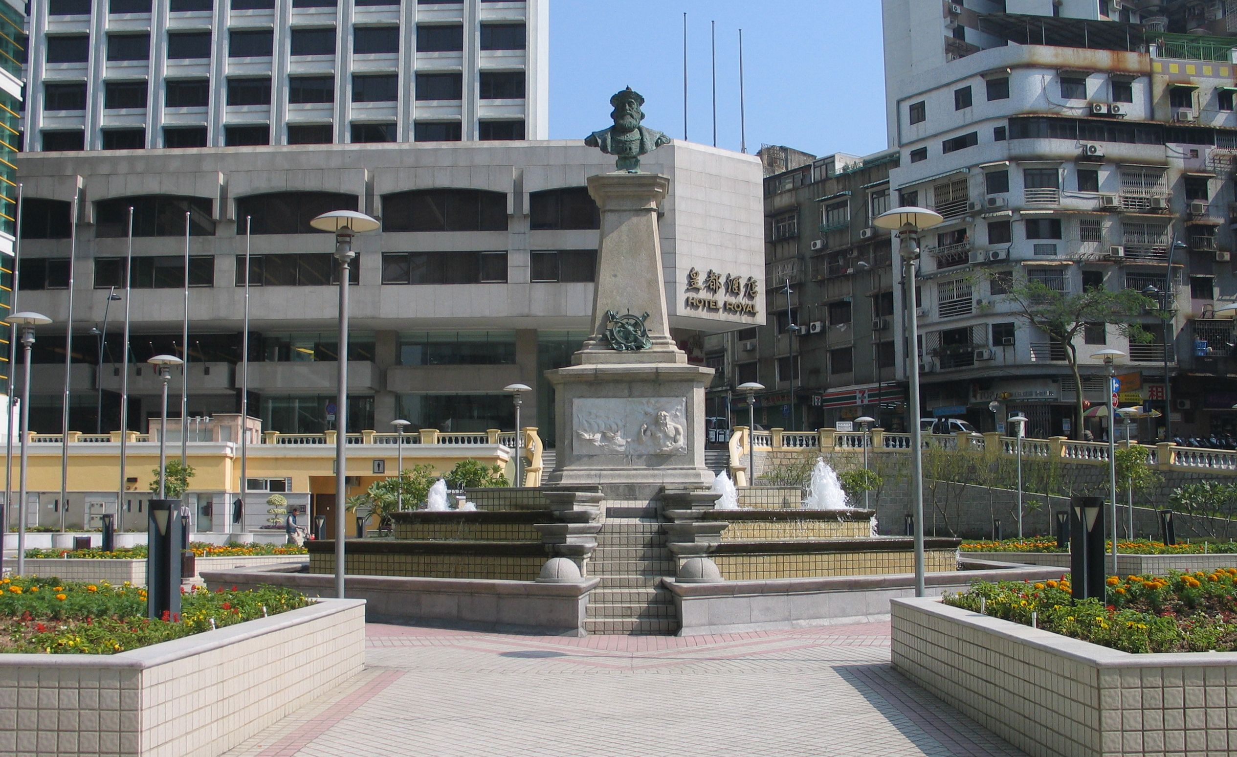 Jardim Vasco da Gama in Macao Source: taken by Glio